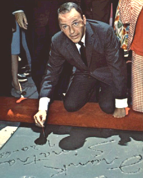 Postcard photo of the handprint ceremony at Grauman's Chinese Theatre for Frank Sinatra.